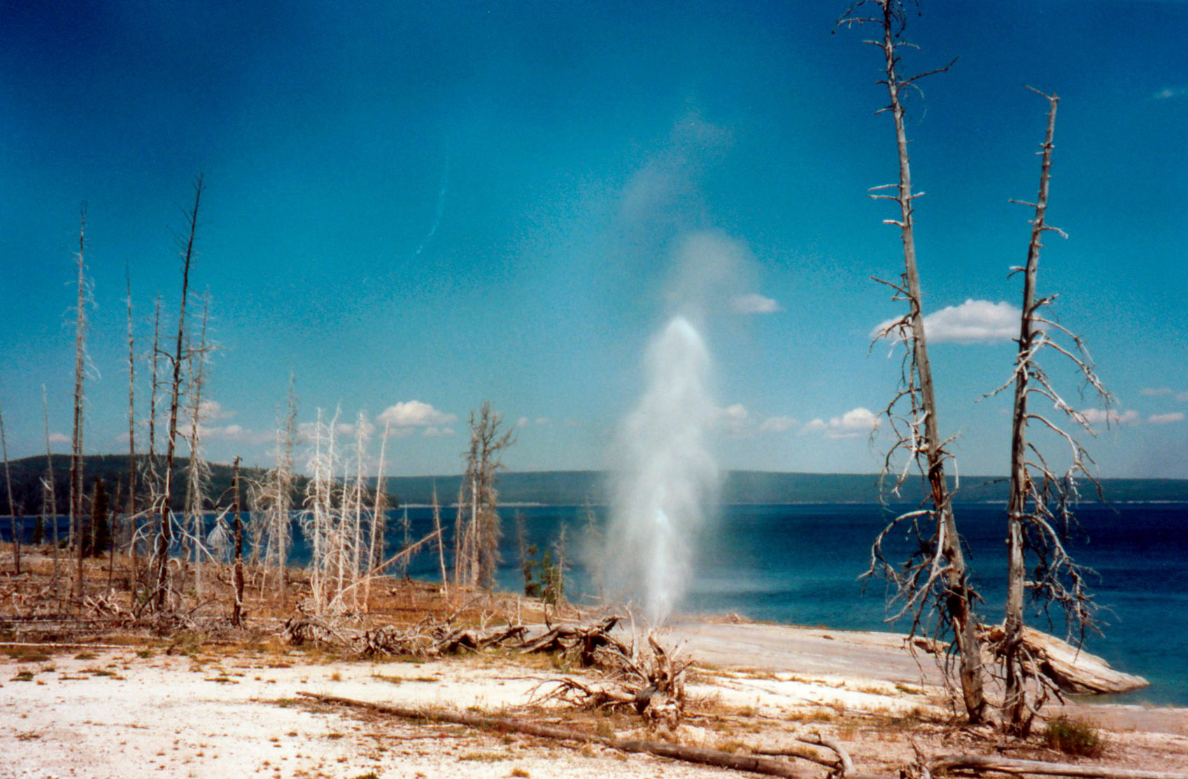 Geyser at the Yellowstone Lake